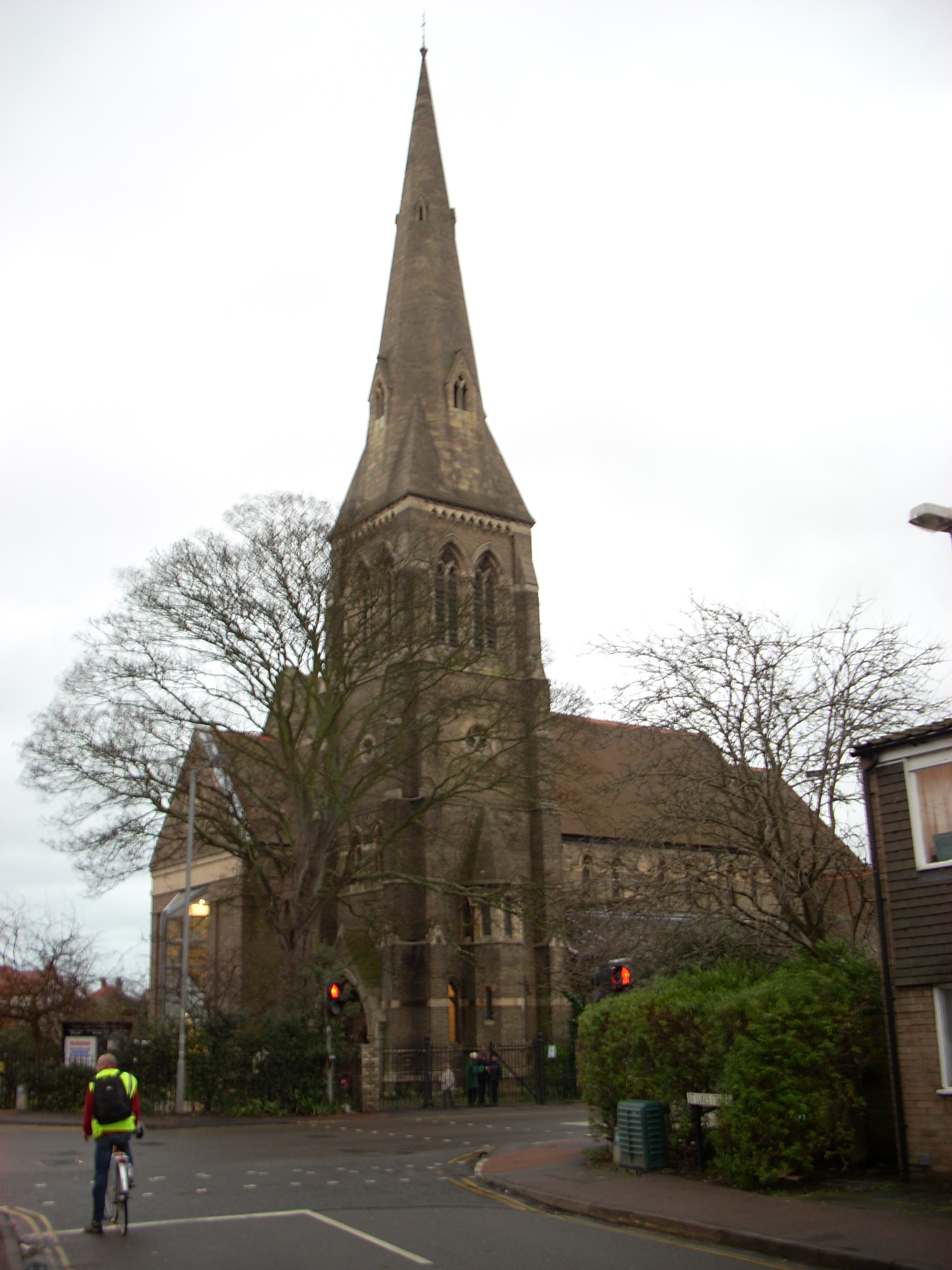 St Luke's parish church, Victoria Road, Cambridge, England, seen from the southwest